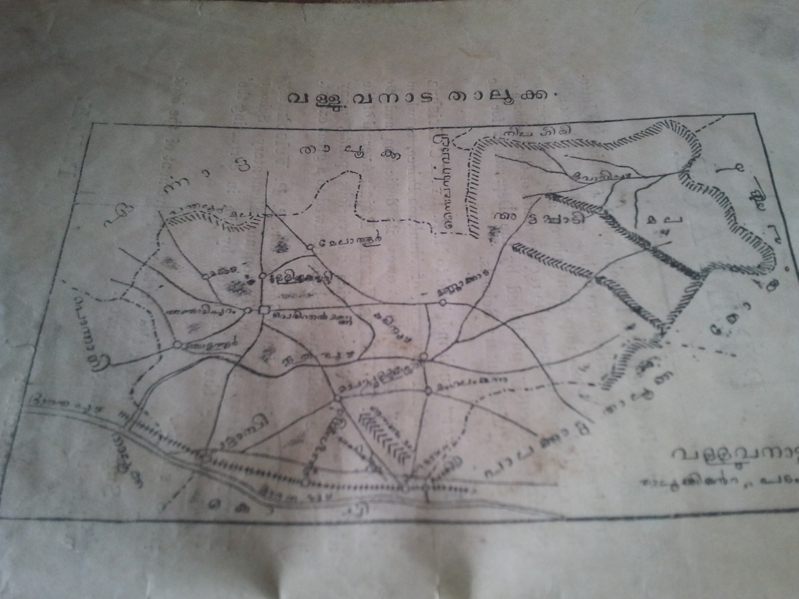 This will open a window to the Valluvanadu History, before the birth of Kerala.